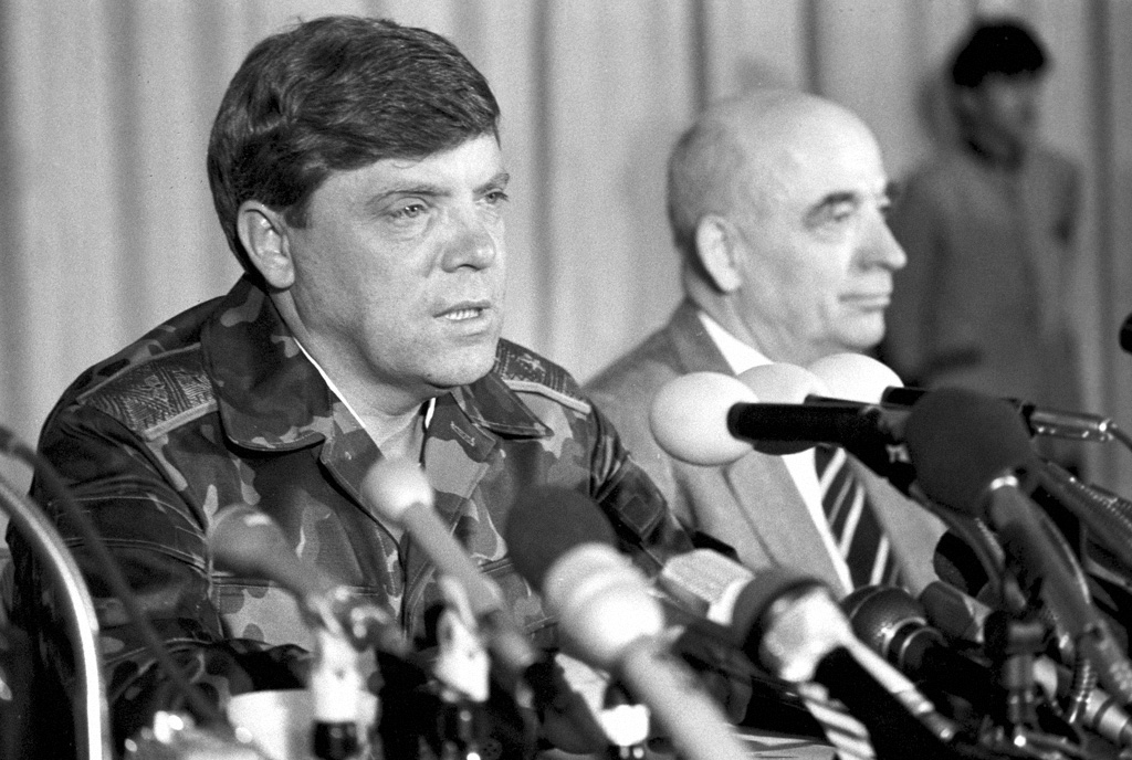 “Pullout of Soviet troops contingent from Afghanistan”. Press conference for Afghan and Soviet journalists. From left to right: Hero of the Soviet Union, Soviet troops contigent commander, Leiutenant-General Boris Gromov and deputy head of propaganda department of Central Committee of the Communist Party of the Soviet Union Vladimir Sevruk.